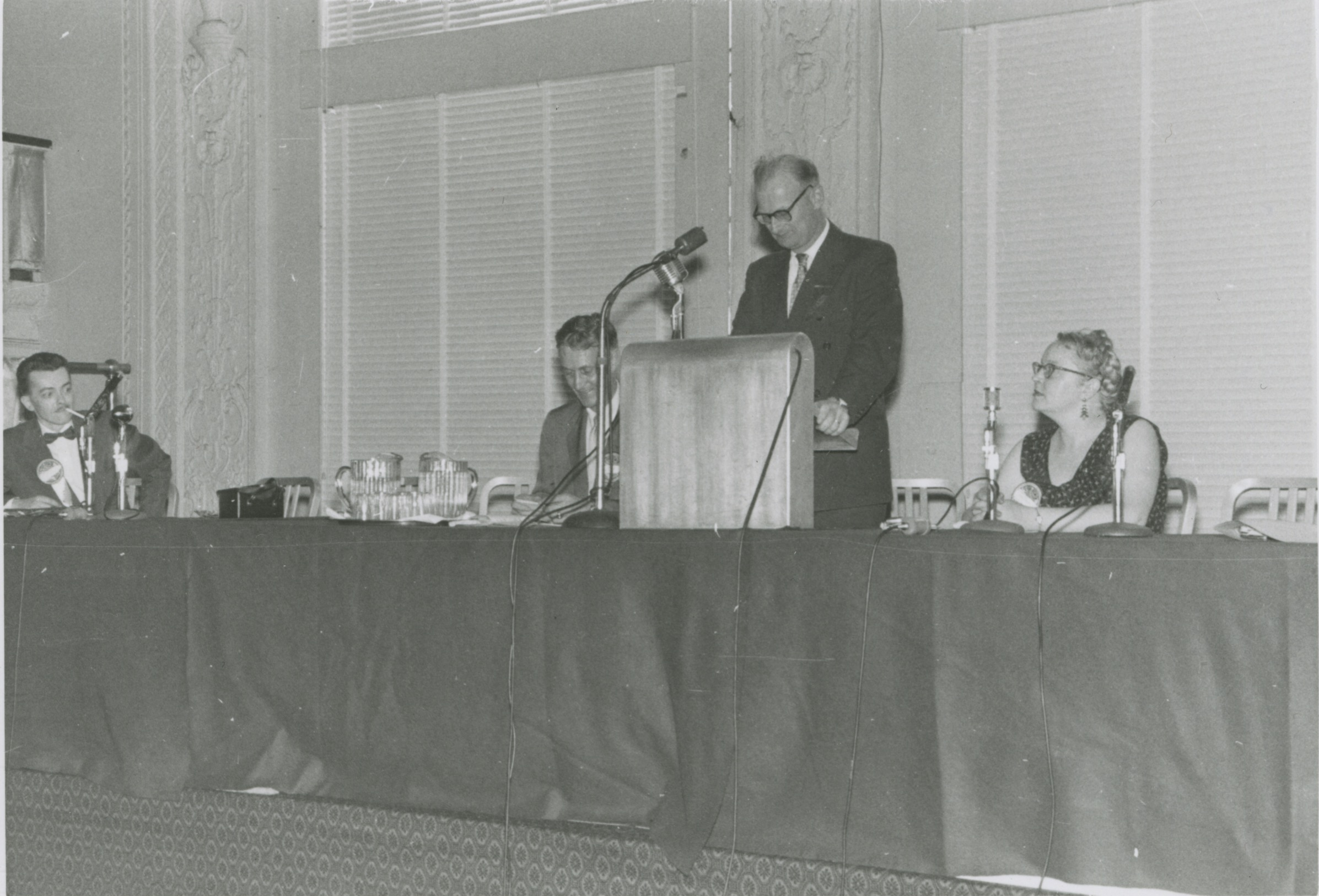 14th World Science Fiction Convention, 1956. Arthur C. Clarke at the podium.